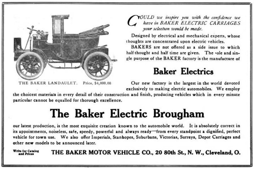 Baker Motor Vehicle Company advertisement